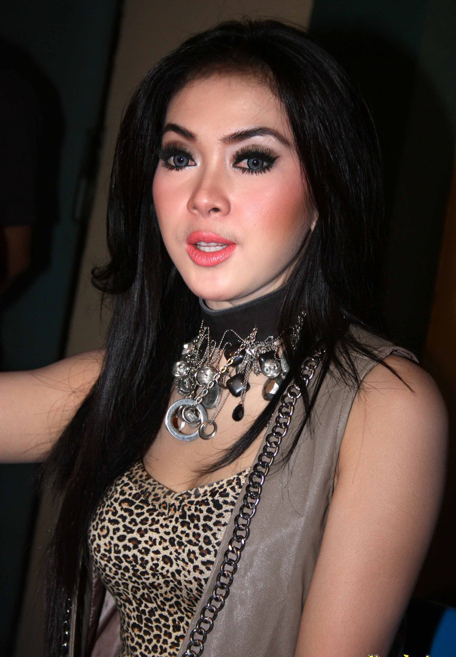 Syahrini circa 2010